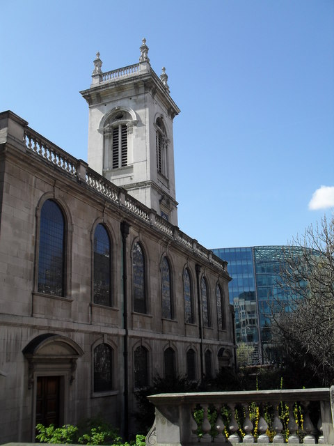 North side of St Andrew Holborn, near to London, City of London, Great Britain.